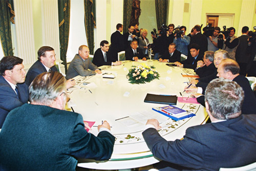 THE KREMLIN, MOSCOW. Vladimir Putin and leaders of parliamentary parties in the Russian State Duma.